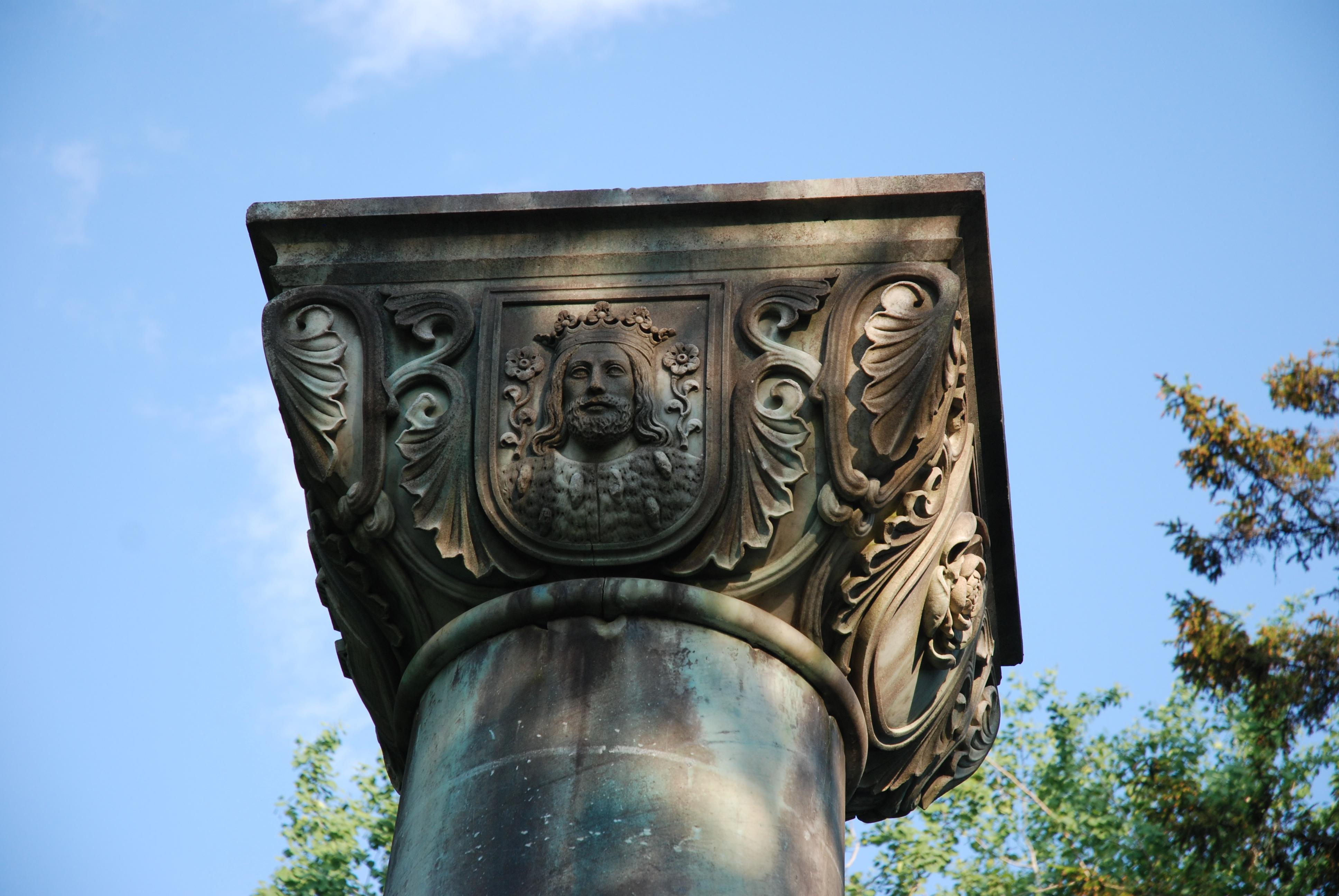 Capital of the Carrara marble column for the Stockholm Birger Jarl Statue, Vätöberg, Sweden, picturing the Stockholm saint patron Erik.